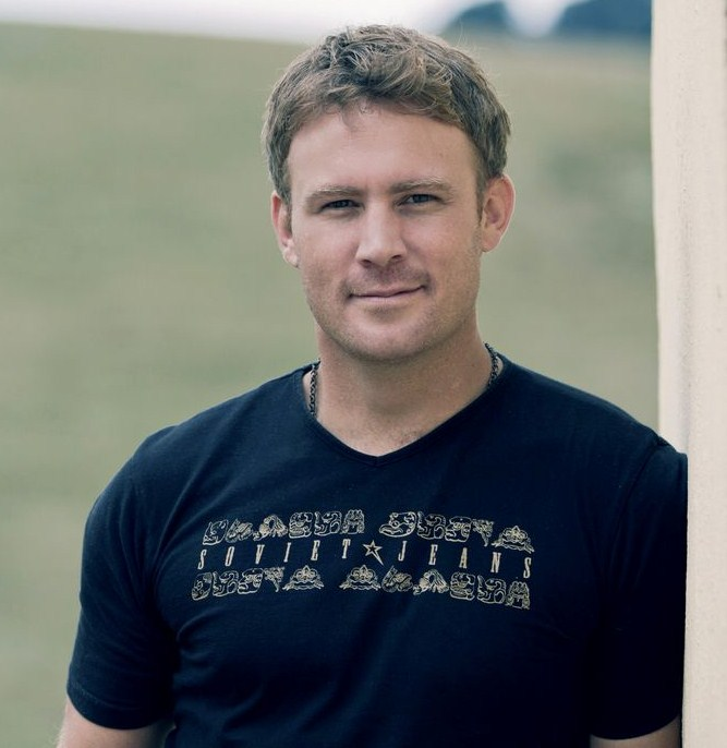 Jason Hartman in 2012